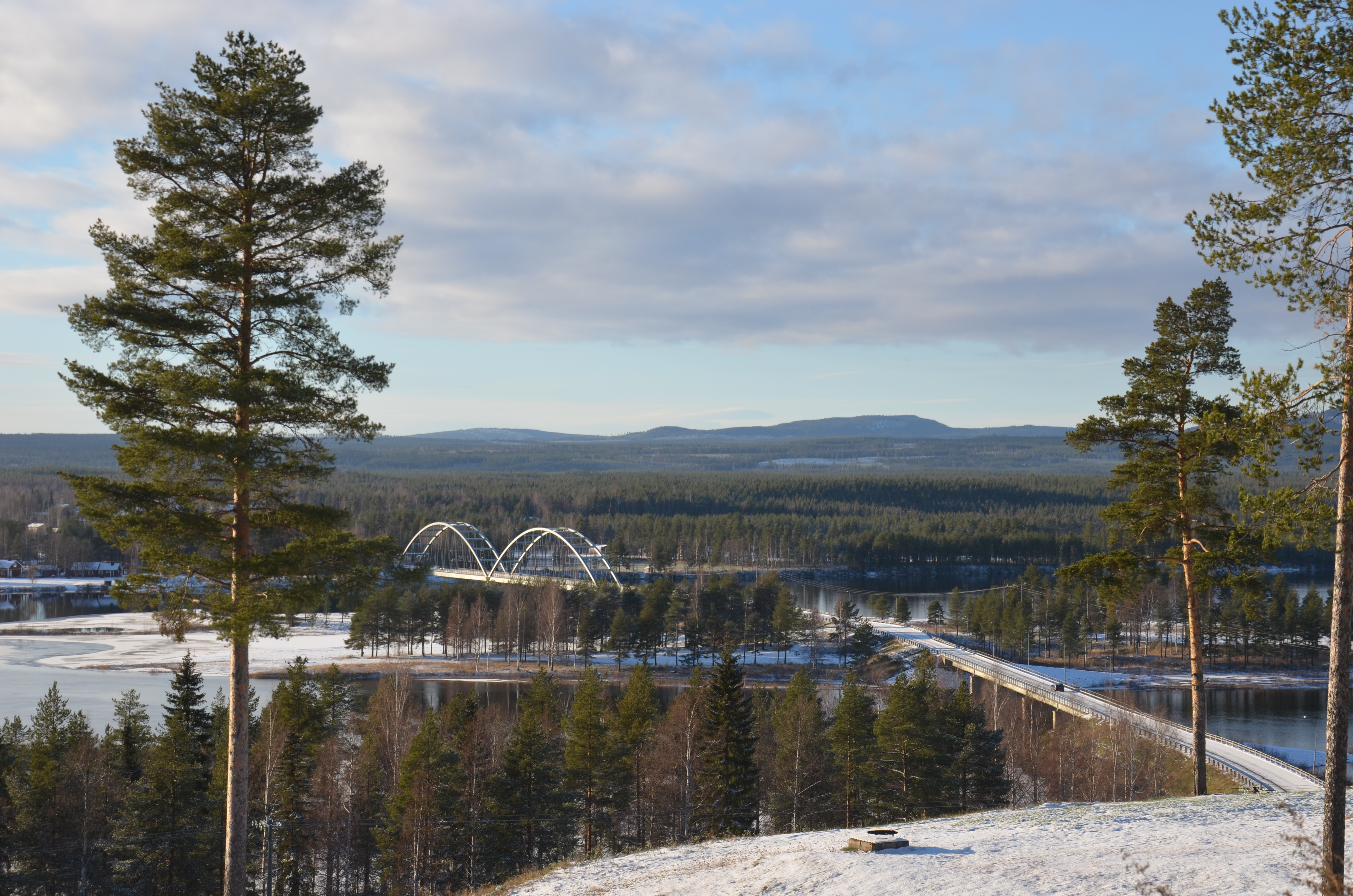 Bron över Luleälven mellan Harads och Bodträskfors. Bilden tagen från Harads